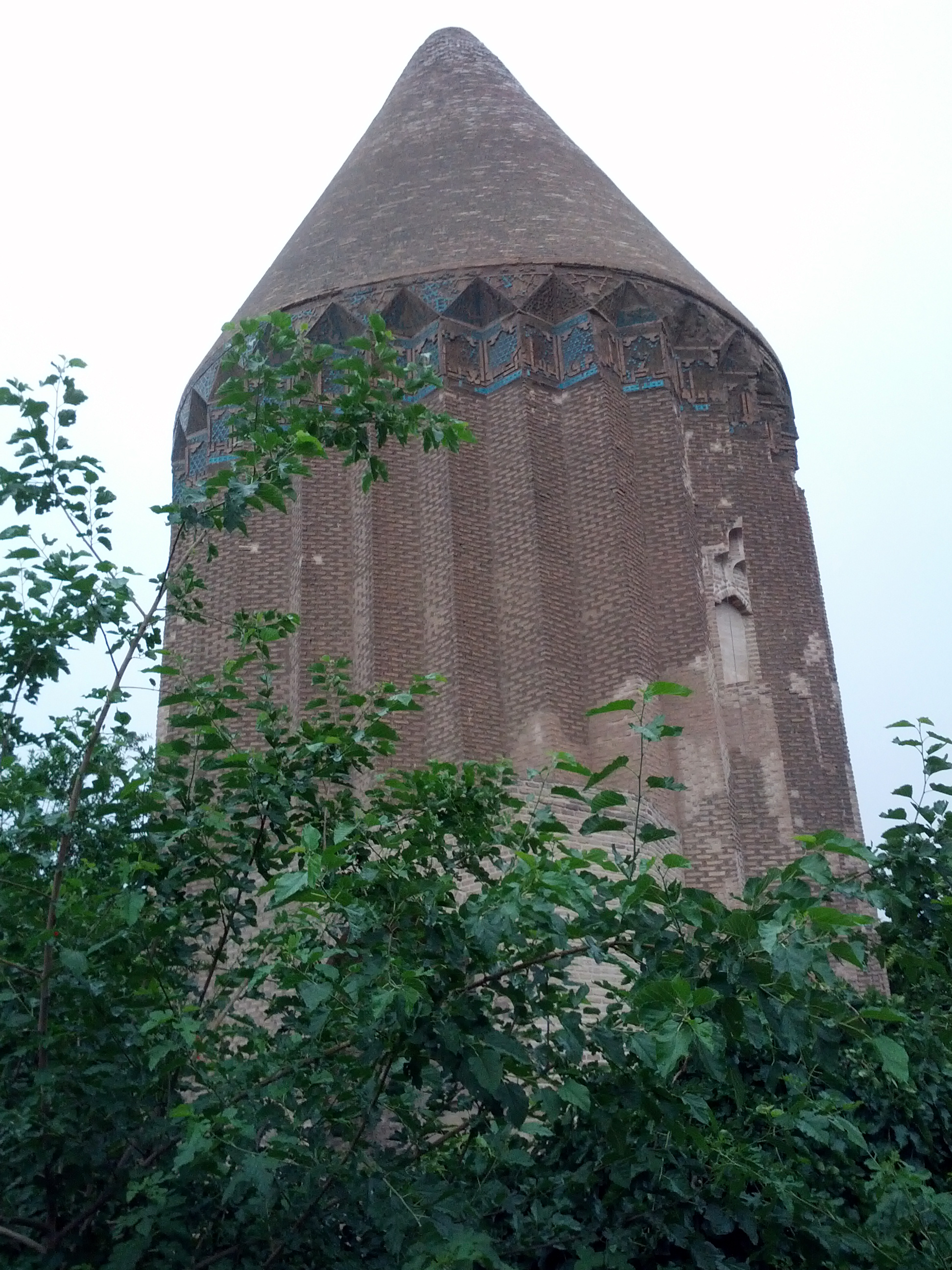 Monumental Historic Tower of Aladole in Varamin, Iran.